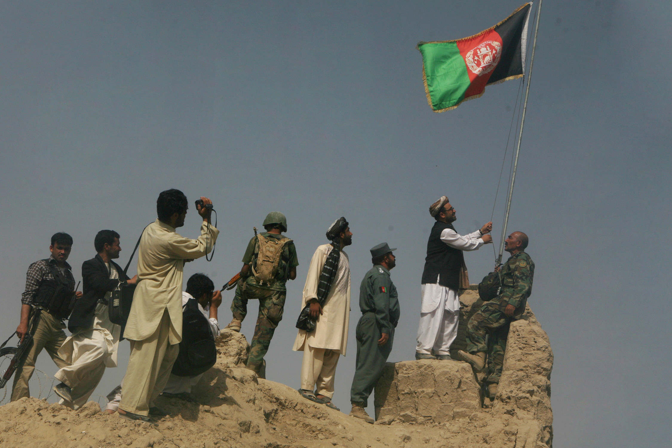 The Afghan national flag is raised above Khan Neshin castle in the Rig District Center for the first time July 8. The flag raising signaled the arrival of Afghan governance in the southern reaches of Helmand Province.